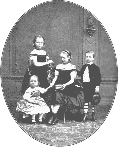 Kaiserin Auguste Viktoria (Mitte), mit ihren Geschwistern